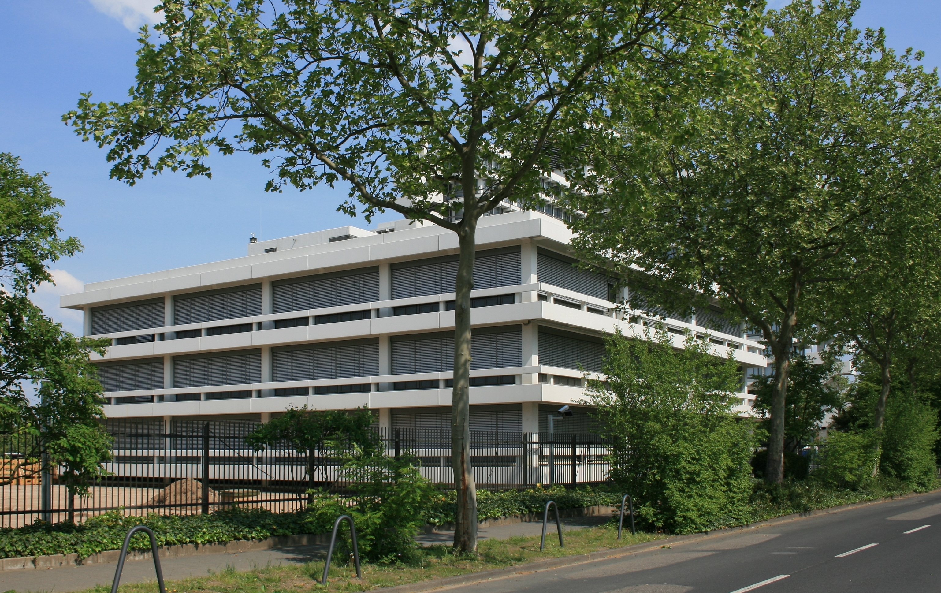 Bonn/Deutschland: Eisenbahn-Bundesamt („Federal Railway Office”/Headquarter) at the areal of the so called "Kreuzbauten" (Heinemannstraße 6, 53175 Bonn (urban district Bad Godesberg/Hochkreuz)). The photo was shot from Max-Löbner-Straße. Following public authorities and institutions are located on the same area (February 2011): a) Streitkräfteamt ("Armed Forces Office"), b) Bundesministerium für Bildung und Forschung (Federal Ministry of Education and Research), c) Deutsches Institut für Erwachsenenbildung ("German Institute for Adult Education")/Leibniz-Zentrum für lebenslanges Lernen("Leibniz-Zentrum for livelong-learning"), d) EBC/Eisenbahn-CERT Benannte Stelle Interoperabilität Bahnsysteme beim Eisenbahn-Bundesamt